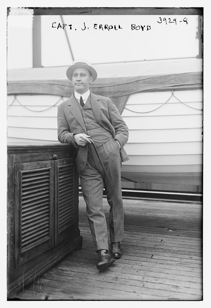 James Erroll Dunsford Boyd in 1916